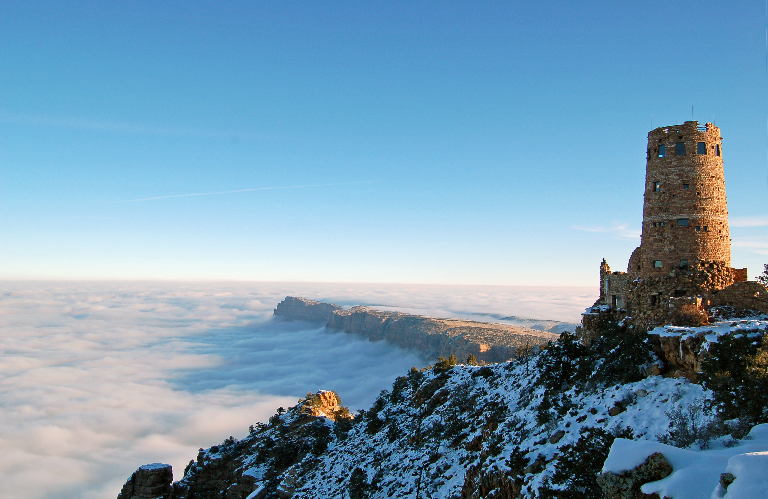 A rare total inversion was seen on November 29, 2013 by visitors to Grand Canyon National Park. This view is of the Desert View Watchtower near Desert View Point on the South Rim. Cloud inversions are formed through the interaction of warm and cold air masses. NPS photo by Erin Huggins. The Watchtower is located at Desert View, the eastern-most developed area on the South Rim of Grand Canyon National Park. Recognized as a National Historic Landmark, the tower was constructed in 1932. Architect Mary Elizabeth Jane Colter’s design takes its influences from the architecture of the ancestral Puebloan people of the Colorado Plateau. She collaborated on the design with Native American artisans of the time, including well-known Hopi artist Fred Kabotie whose murals adorn much of the second level of the tower. View historic photos of the watchtower here: For more information about how to plan a trip to Grand Canyon National Park, download our Trip Planner